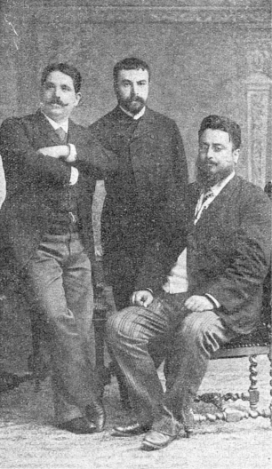 (From left ot right) Alexandru Ionescu, Vasile G Morţun, and Ioan Nădejde, leaders of the Romanian Social Democratic Workers' Party in a 1893 press photo